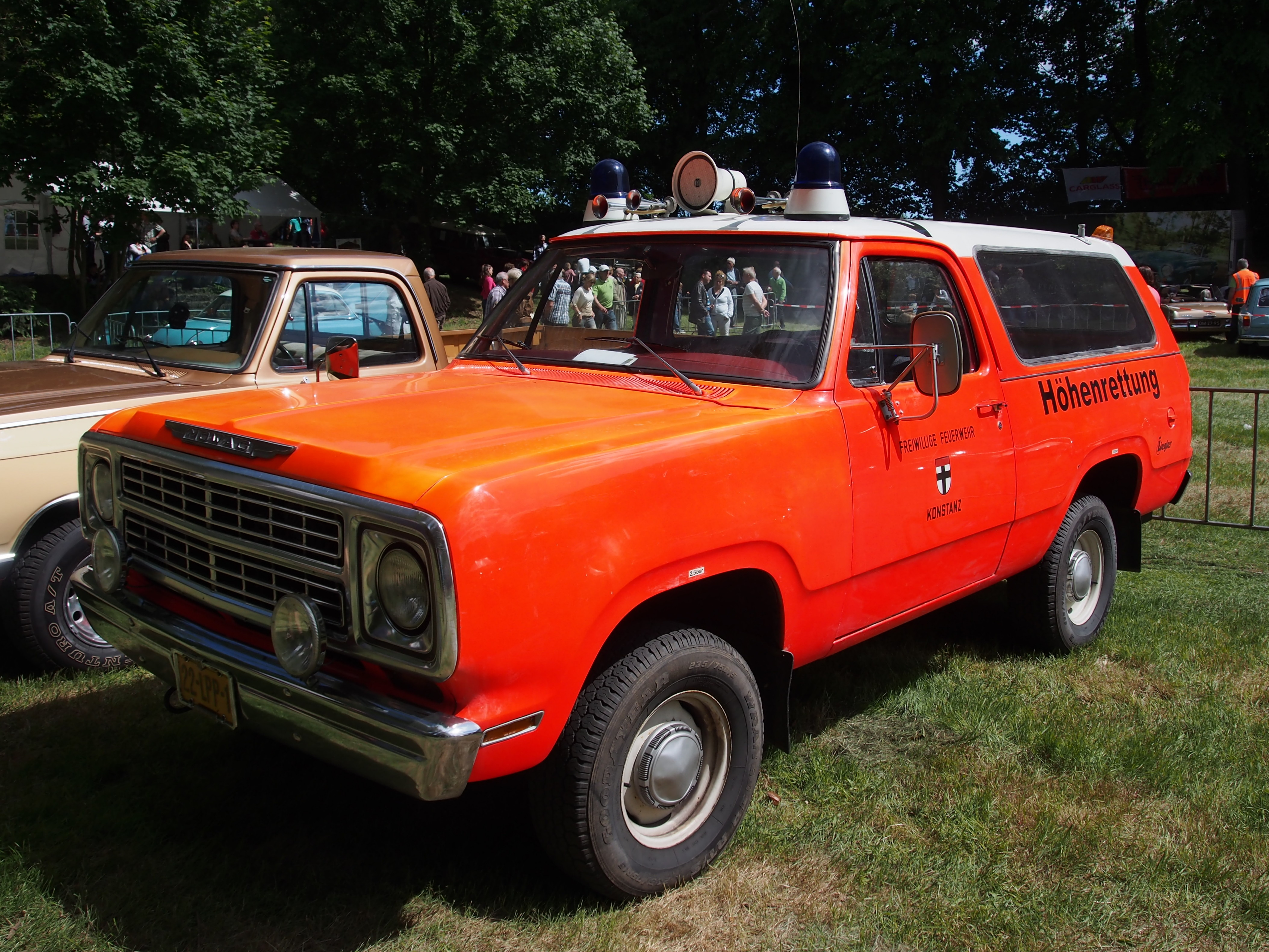 This is a picture of a vehicle (name of it is on the file name).